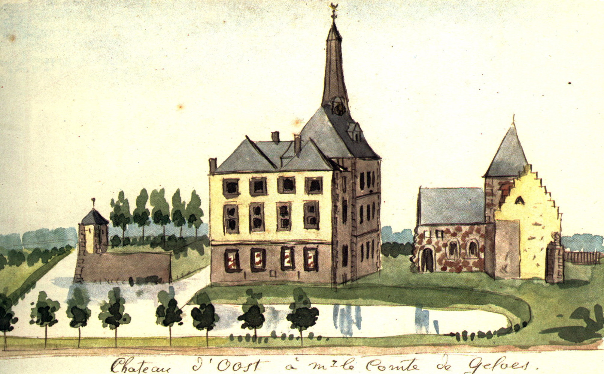 View of Oost Castle in Eijsden, near Maastricht, Limburg, the Netherlands. Drawing by Philippus van Gulpen (c 1840-60)